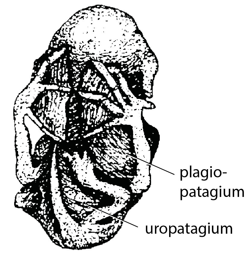 Standard Event System character depiction